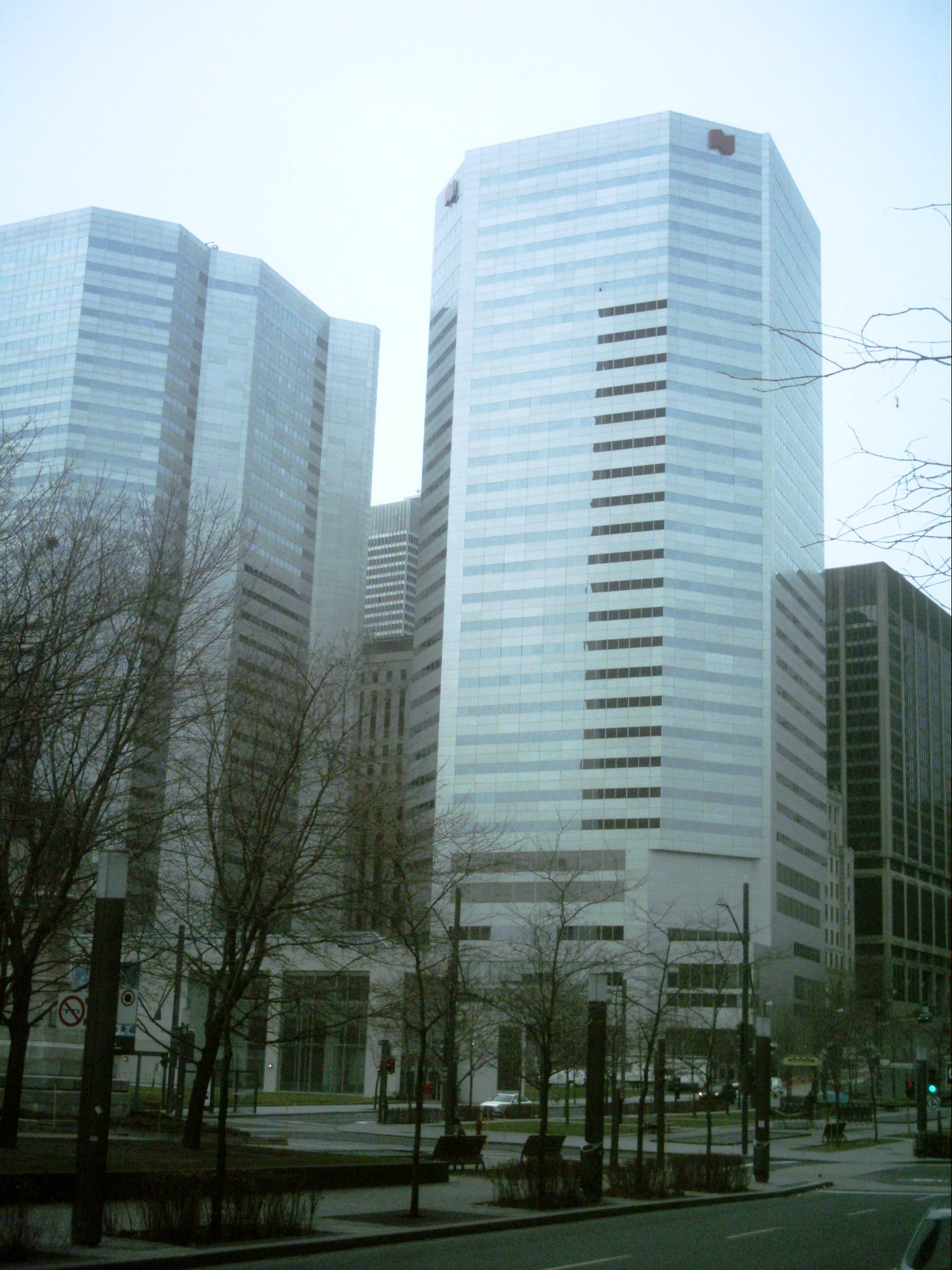 National Bank Tower, Montreal